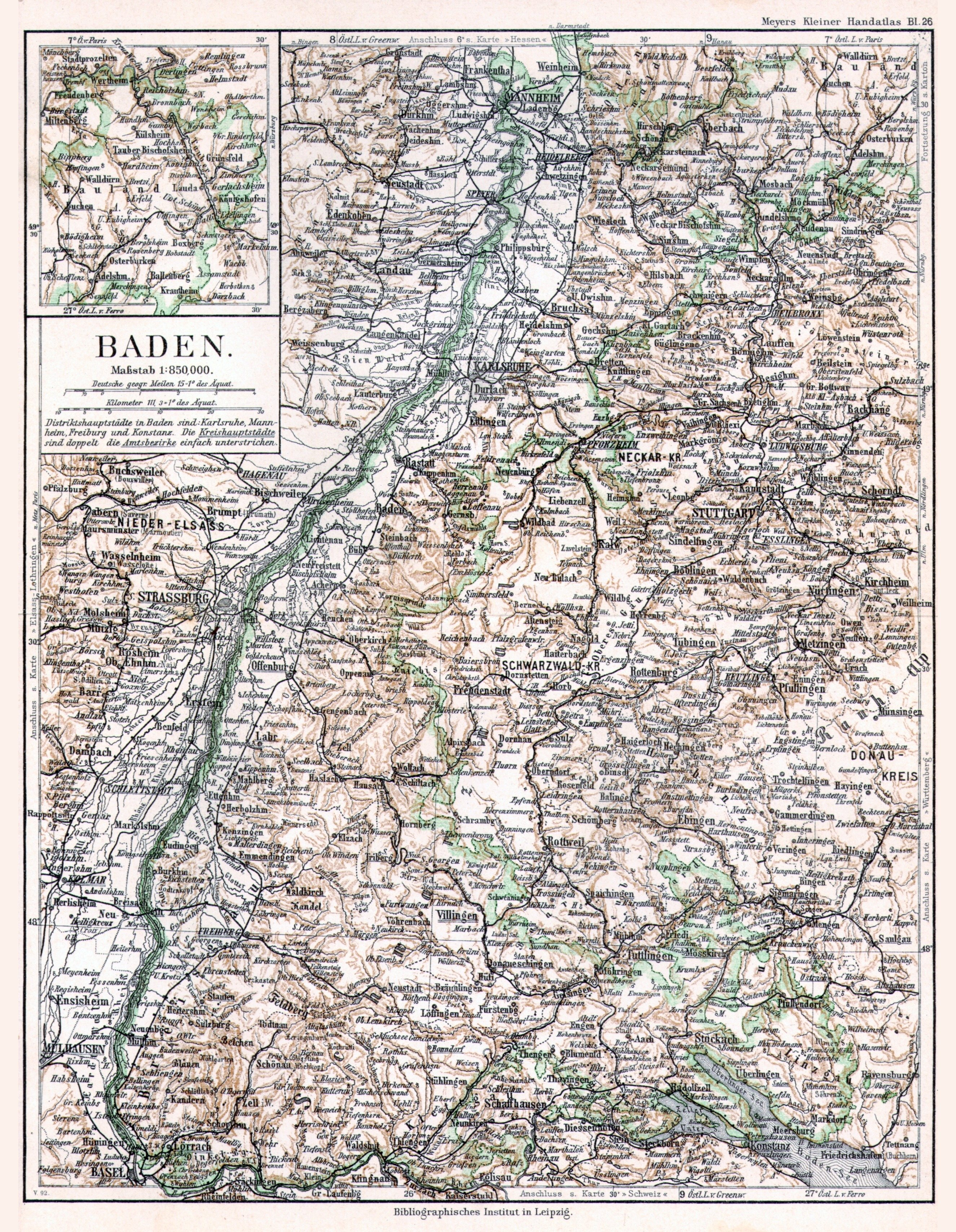 Map of the Kingdom of Baden in the German Empire before 1900